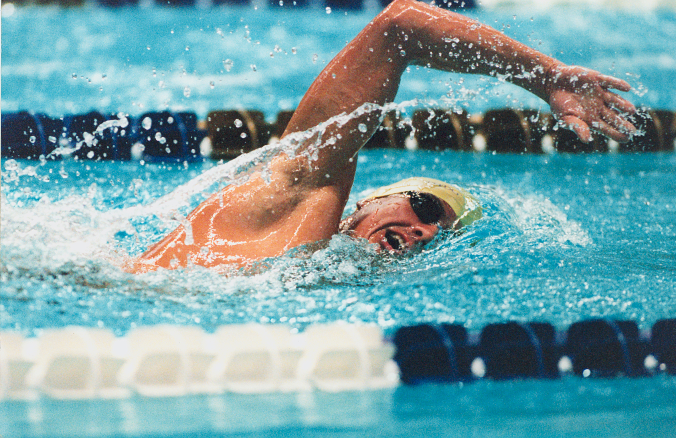 Australian Jeff Hardy swimming at the 1996 Paralympic Games in Atlanta.